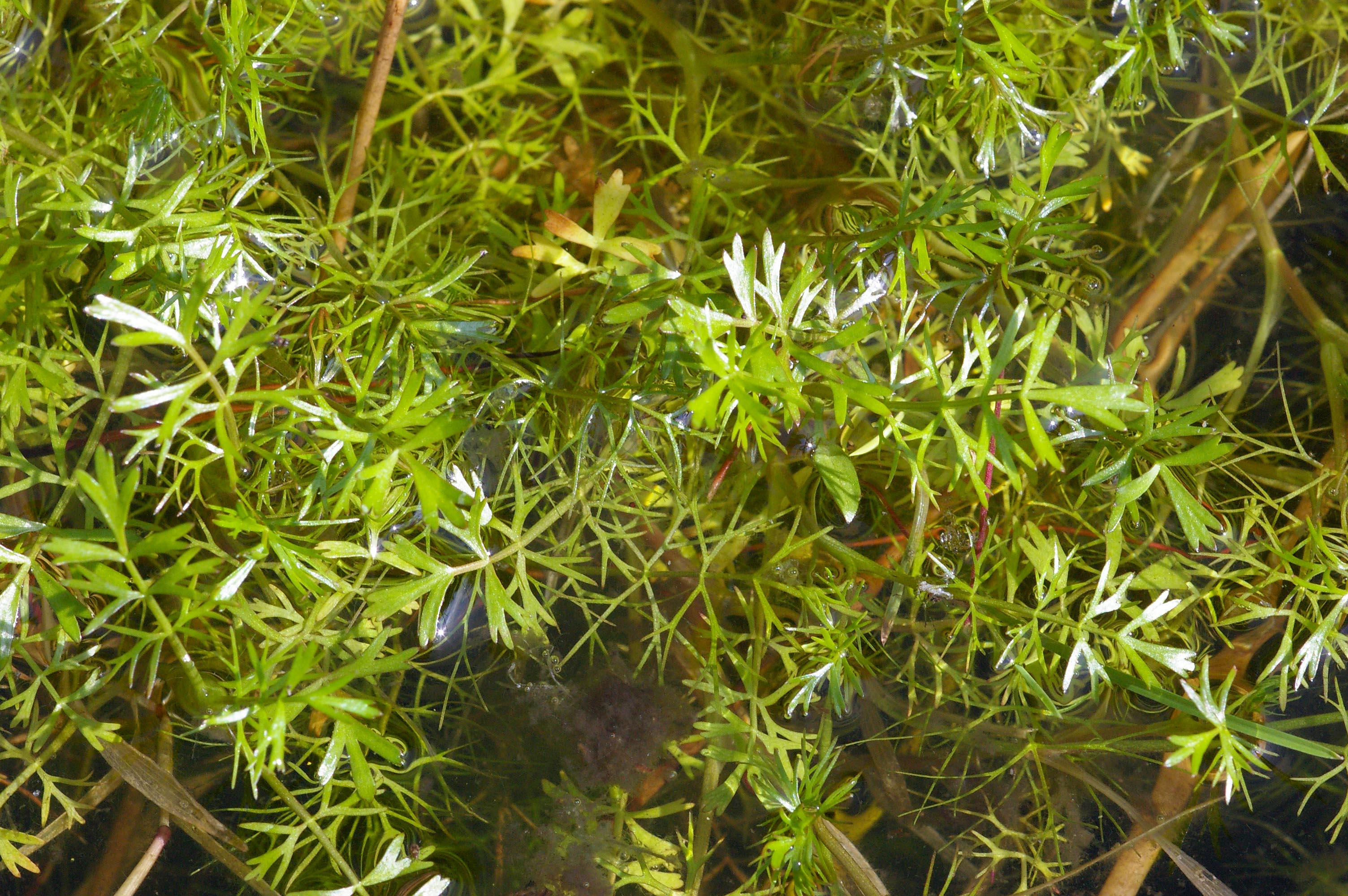 Submersed and emersed leaves of Apium inundatum / Helosciadium inundatum.